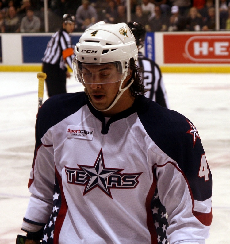 Hockey player Brenden Dillon, November 2012 at the Cedar Park Center